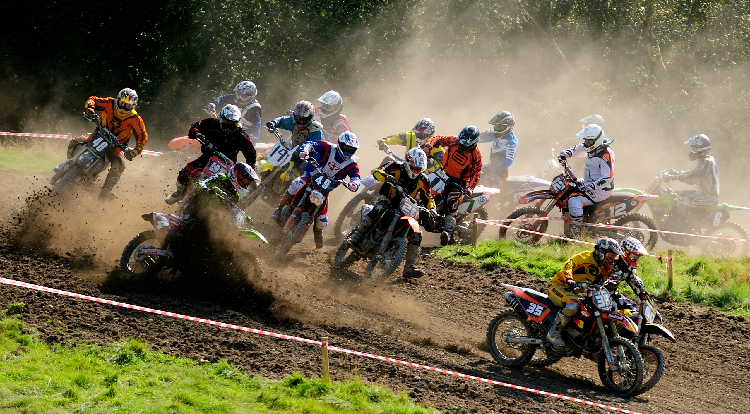 Motocross in Tankersley (England)